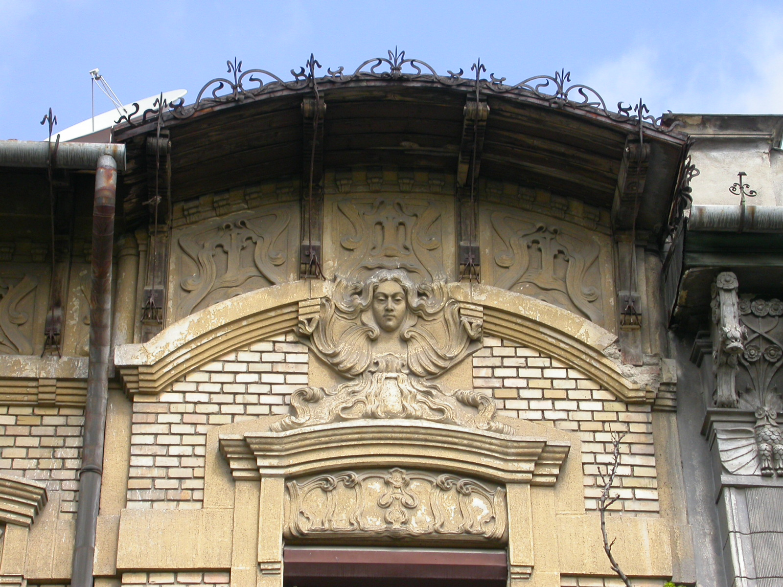 Dr. Junkert House, Timișoara, Romania, built 1910 (detail)